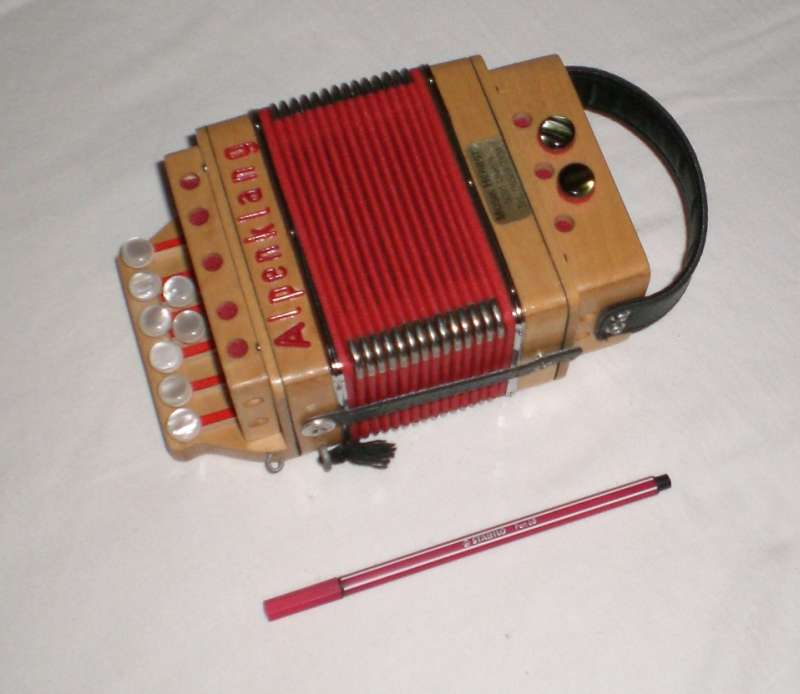 Here you can see "the worlds smallest harmonica" (entry in the Guinness Book of Records 1993) in comparison of size to a commercial pencil.